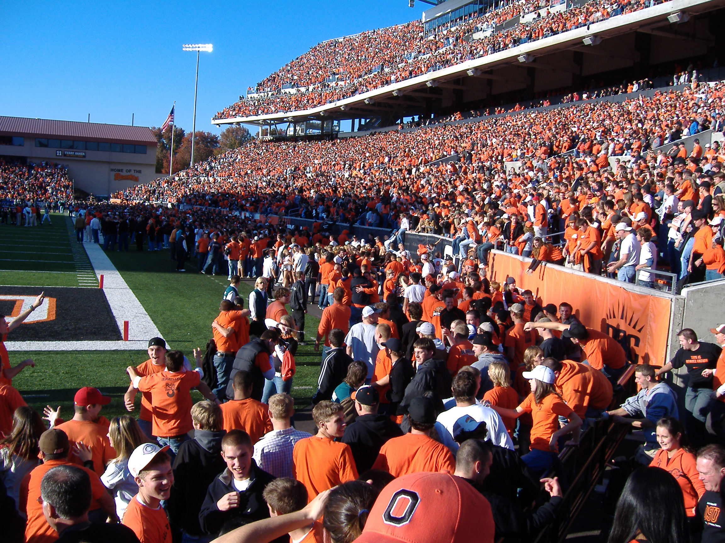 Taken by me 10/28/06 at football game vs. USC, OSU fans rushing the field